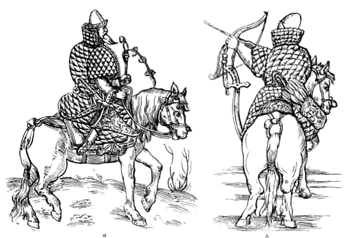 Muscovian cavalry of XVI century